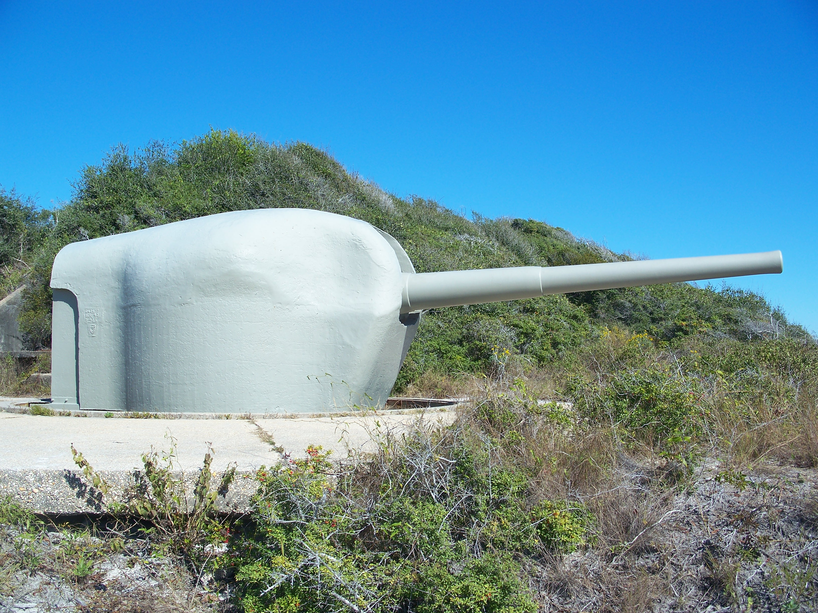 Gulf Islands National Seashore, south of Pensacola, Florida: Fort Pickens: Battery 234